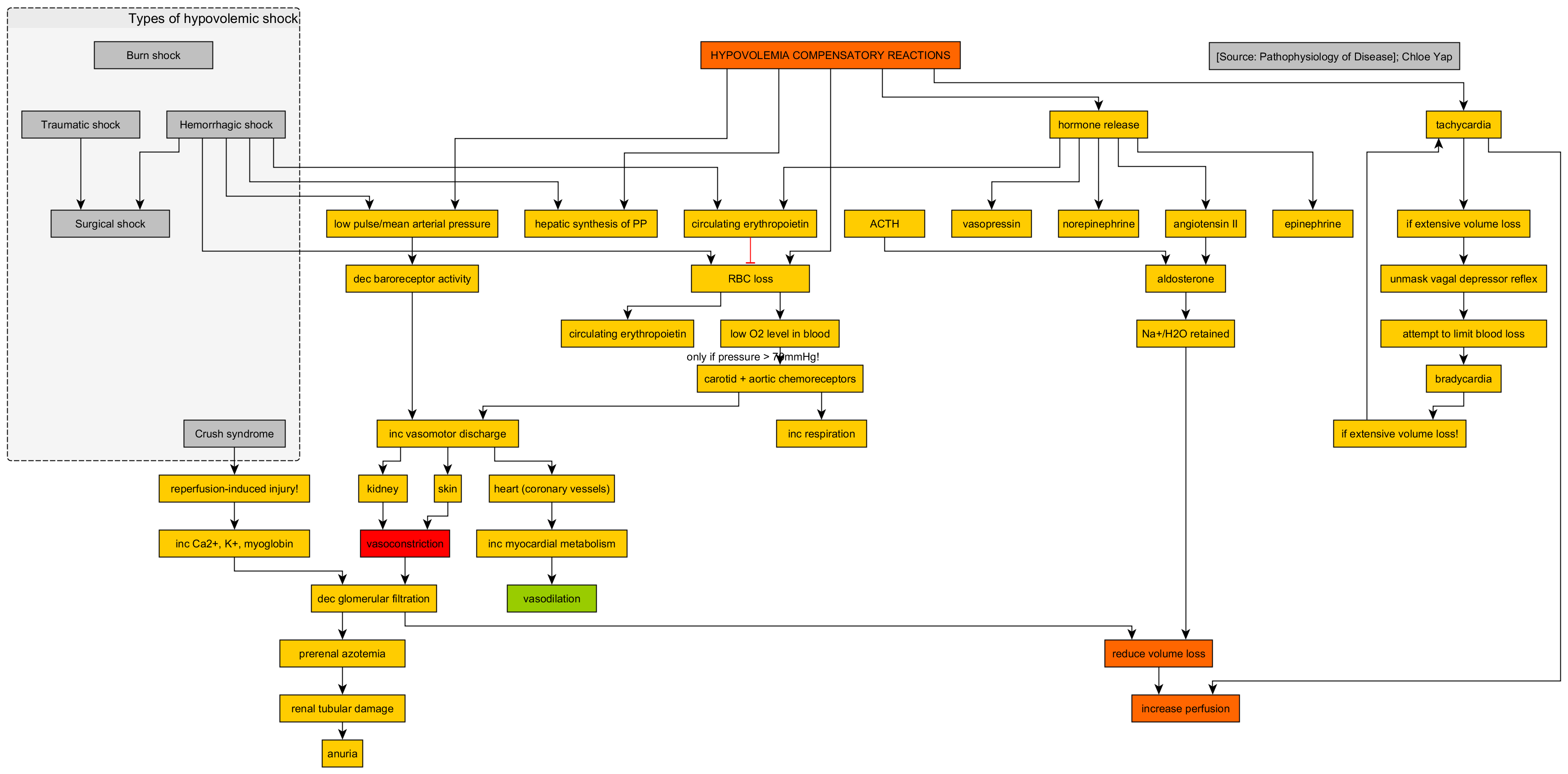 Source: Pathophysiology of Disease Software: yEd